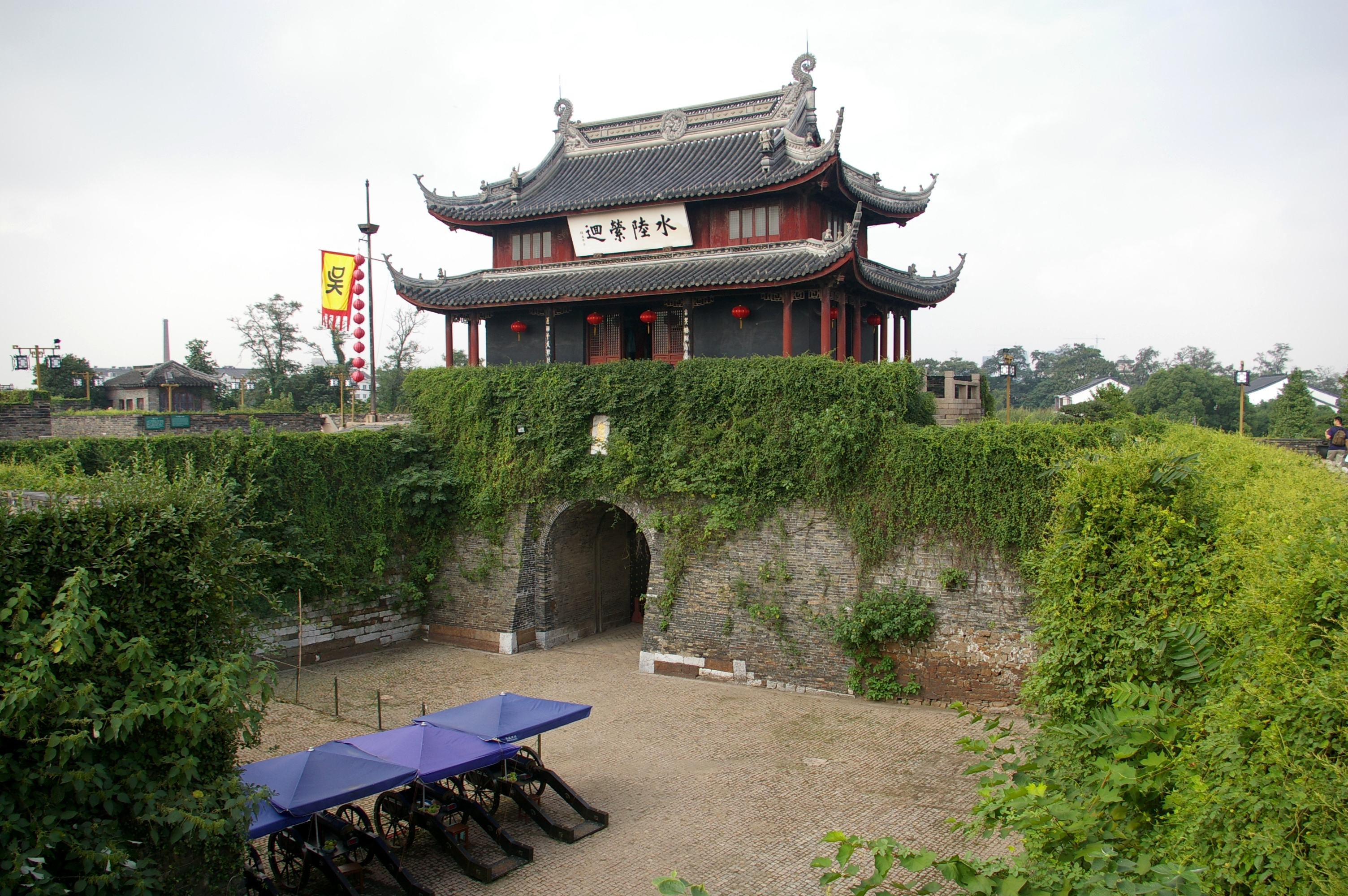 The Pan Gate in Suzhou